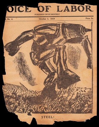 Cover of Voice of Labor, Oct. 1, 1919. Jack Reed, editor; Ben Gitlow, business manager. Published in the United States prior to 1923, not subject to copyright at time of publication, public domain.